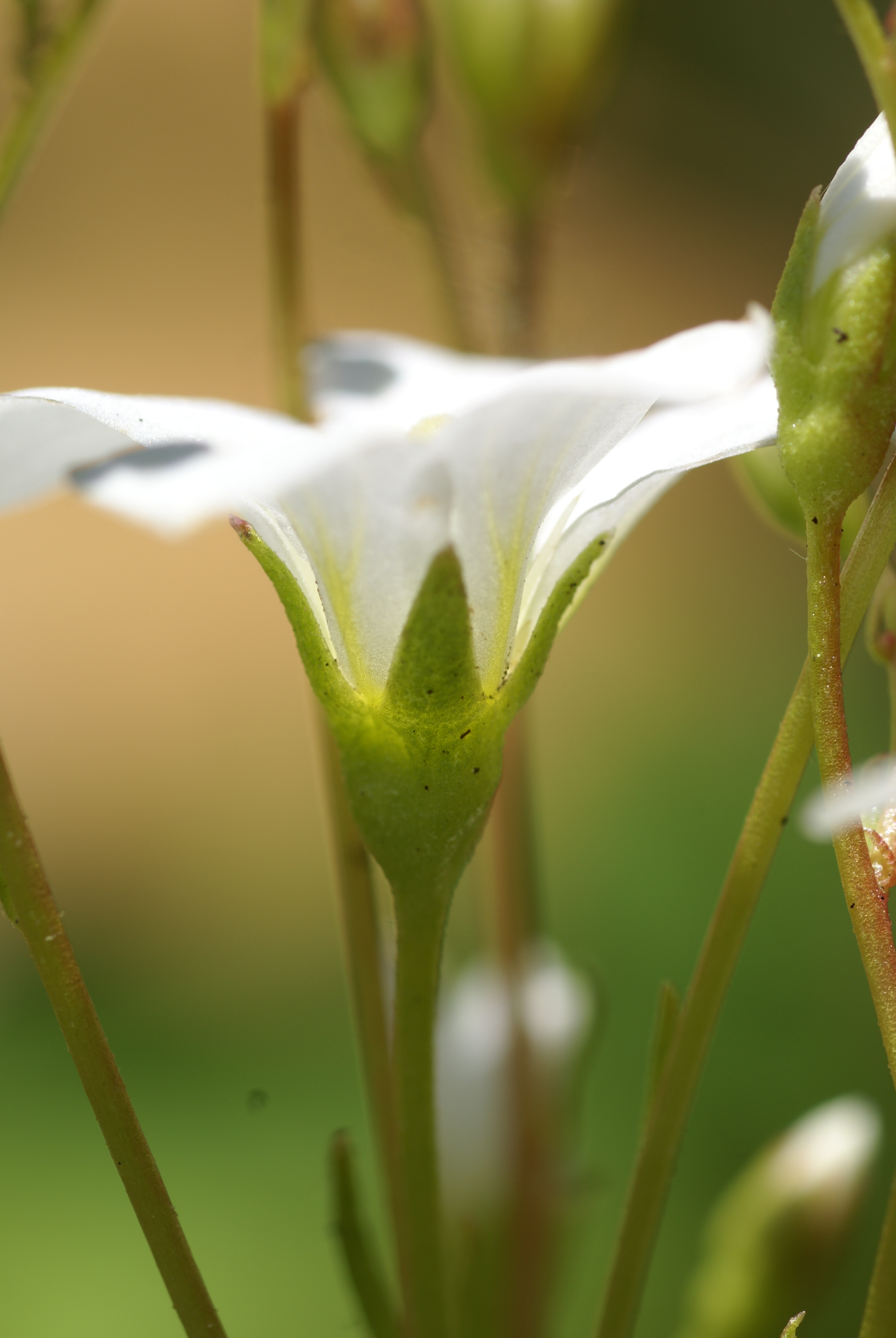 Plant species Saxifraga fragilis in Bergianska trädgården in Stockholm, Sweden